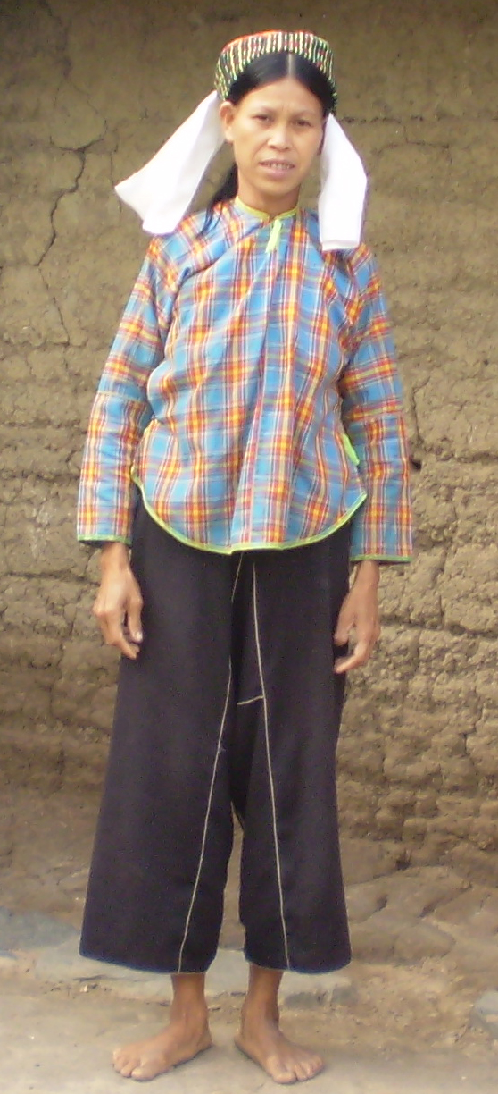 Nung woman in Viet Nam